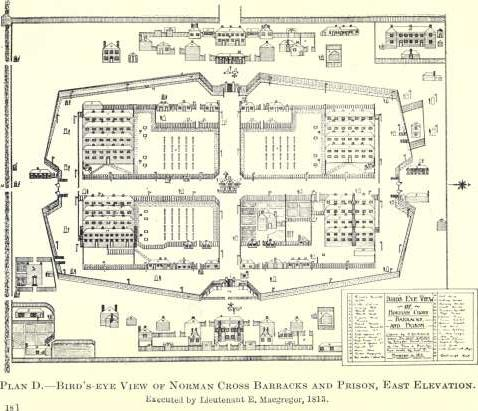 Bird's eye view of the Norman Cross Barracks and Prison, East Elevation